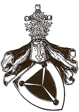 Coat of arms of the german family „von Sydow“